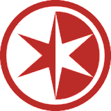 This is a logo owned by Televisa for Canal de las Estrellas, affiliates and repeaters.